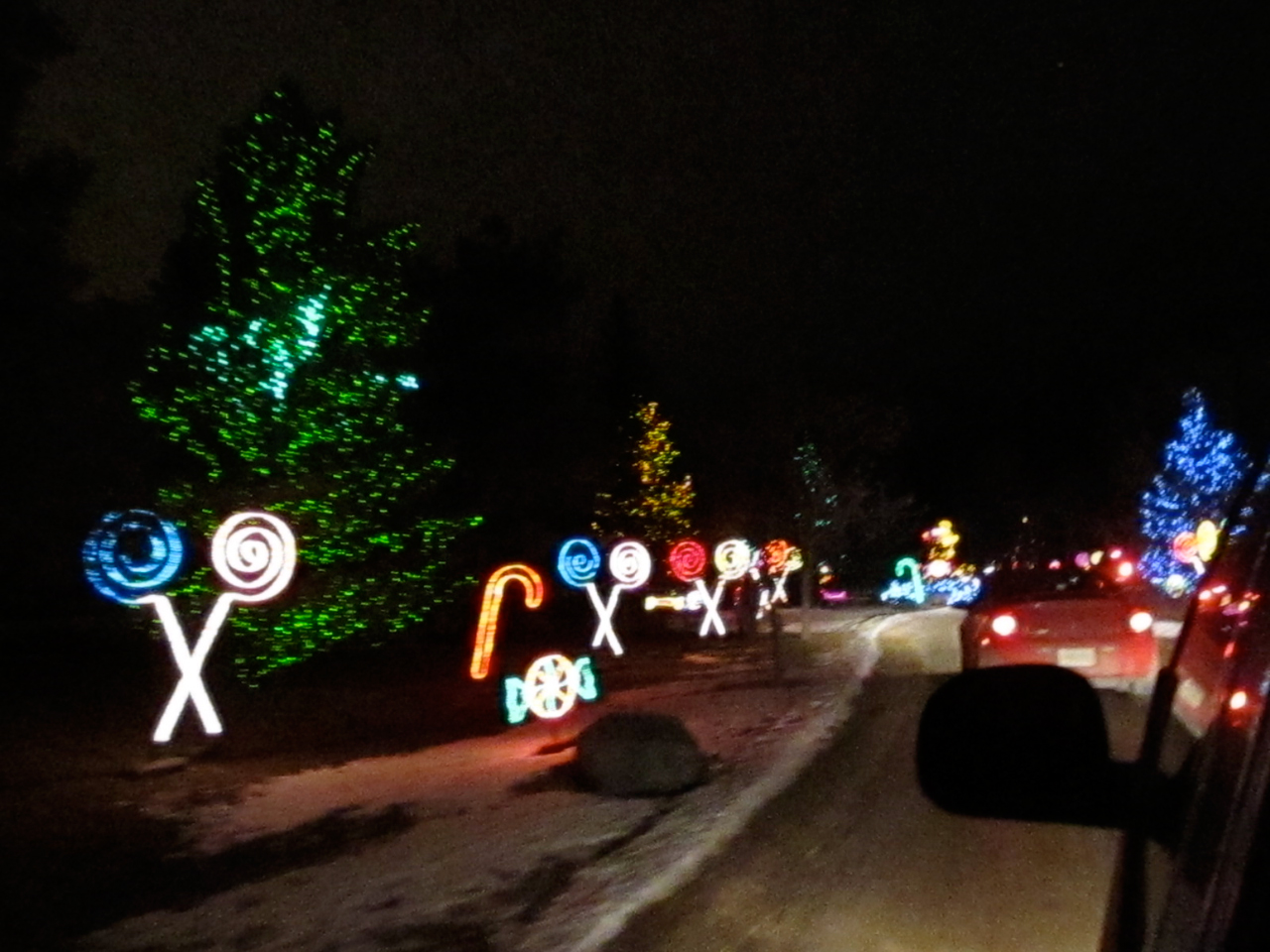 Lollipops and candy canes mark the sides of Candy Lane. It was actually more effective in past years when they set it up in a straight line.